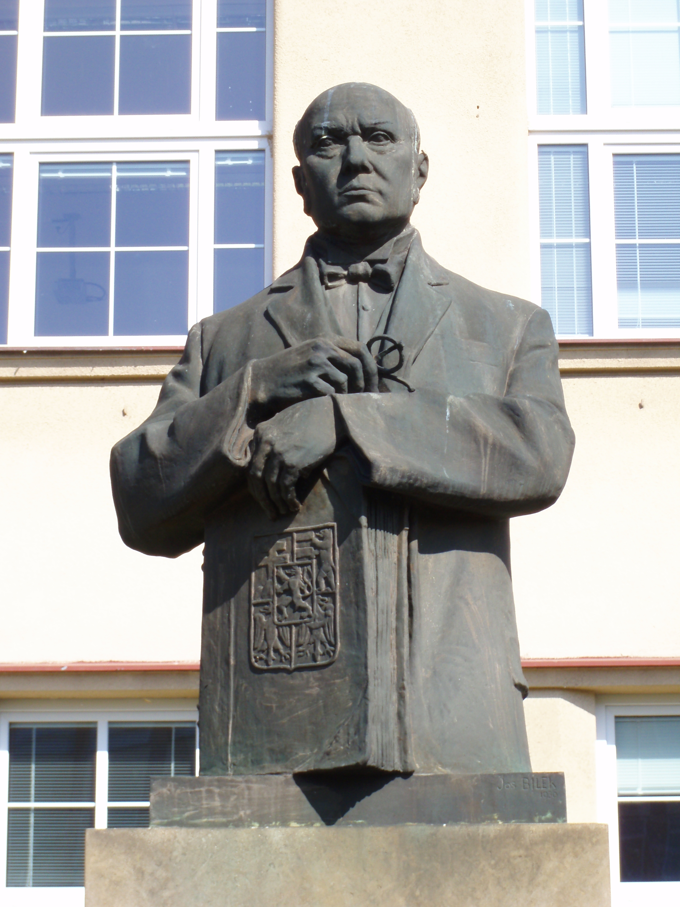 A. Švehla Monument (Hradec Králové)